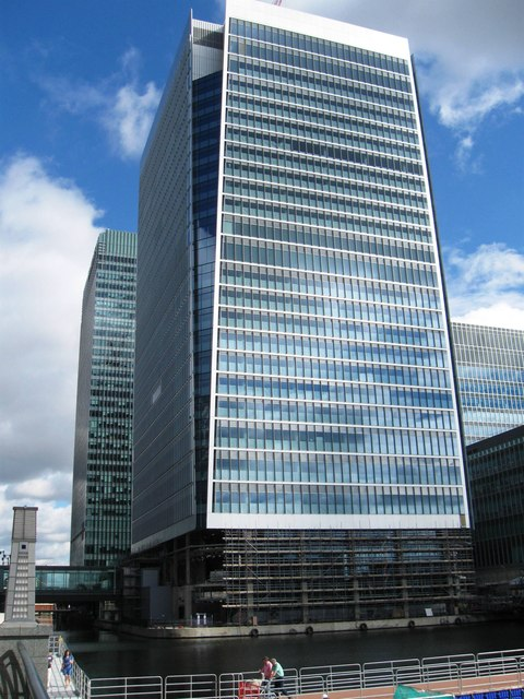 25 Churchill Place, Canary Wharf